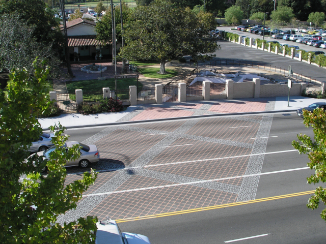 CAMPO DE CAHUENGA, 3919 Lankershim Blvd., North Hollywood, CA 91604. The colored pavement marks the location of the foundations of the original building. .